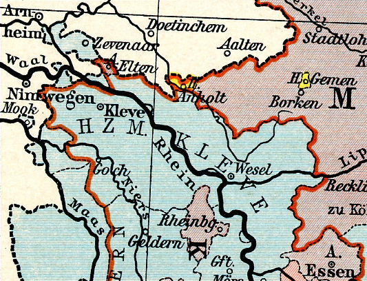 Map showing location of the Herrschaft von Anholt, scanned from plate 37 "Nordwestdeutschland 1789" of the 1905 edition of F.W.Putzger's Historischer Schul-Atlas. The black borders and colouring show frontiers as in 1789; the red borders show frontiers as in 1905.